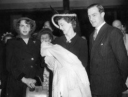 Princess Marina of Greece (duchess of Kent) at Paul Brandram's christening